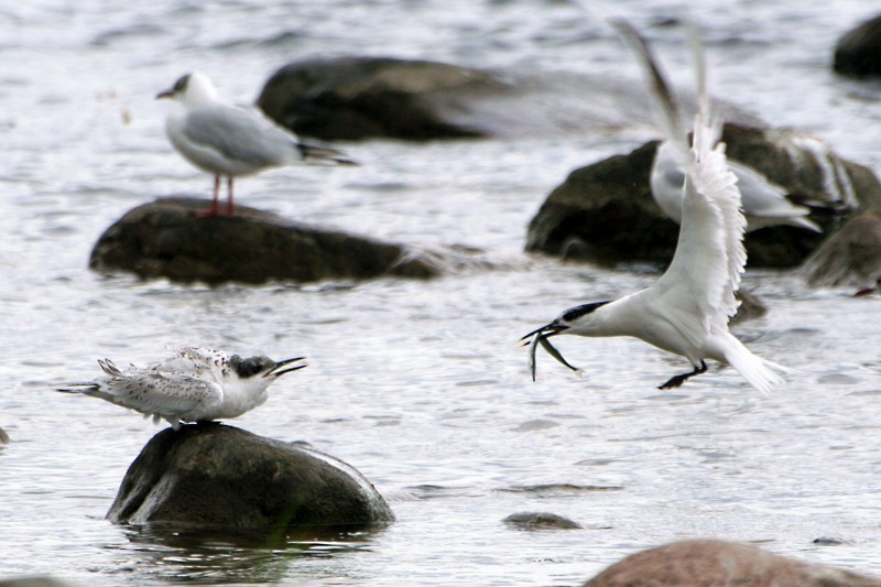 Sandwich tern (Thalasseus sandvicensis, syn. Sterna sandvicensis) approaching its offspring with a fish (probably a young garfish, Belone belone). Photo taken near Binz, Ruegen (Germany).